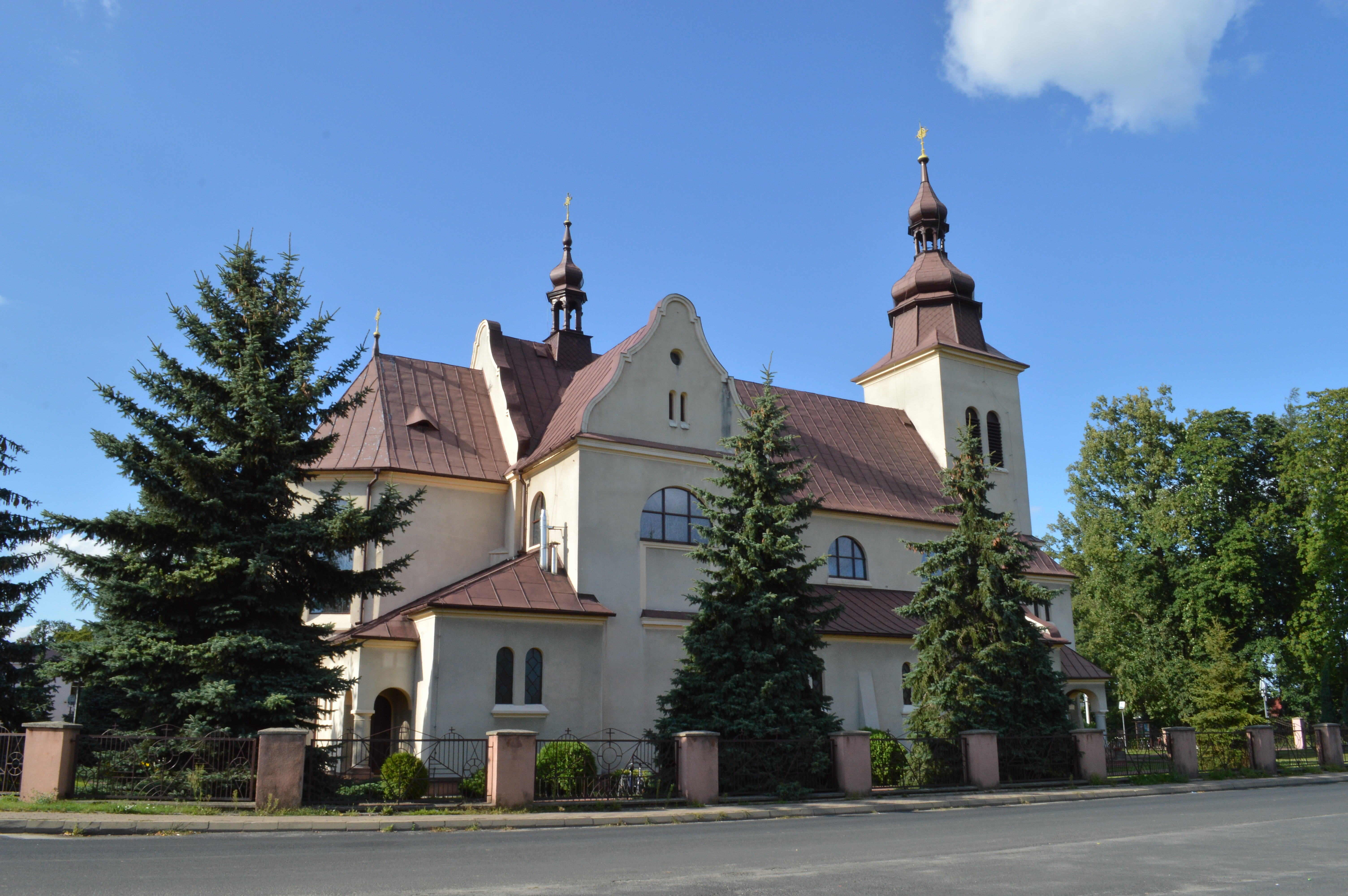 Church of Holy Family in Panki